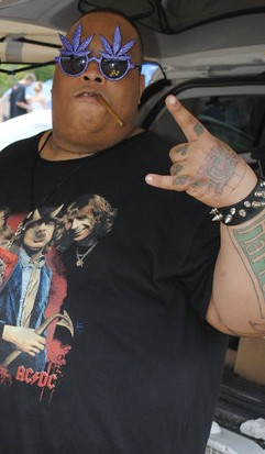 Taken by Joe Rivers with the subject's permission in Detroit.